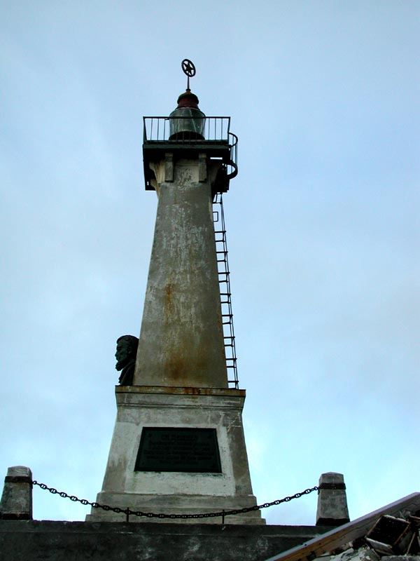 Monument to Semyon Dezhnev, Cape Dezhnev